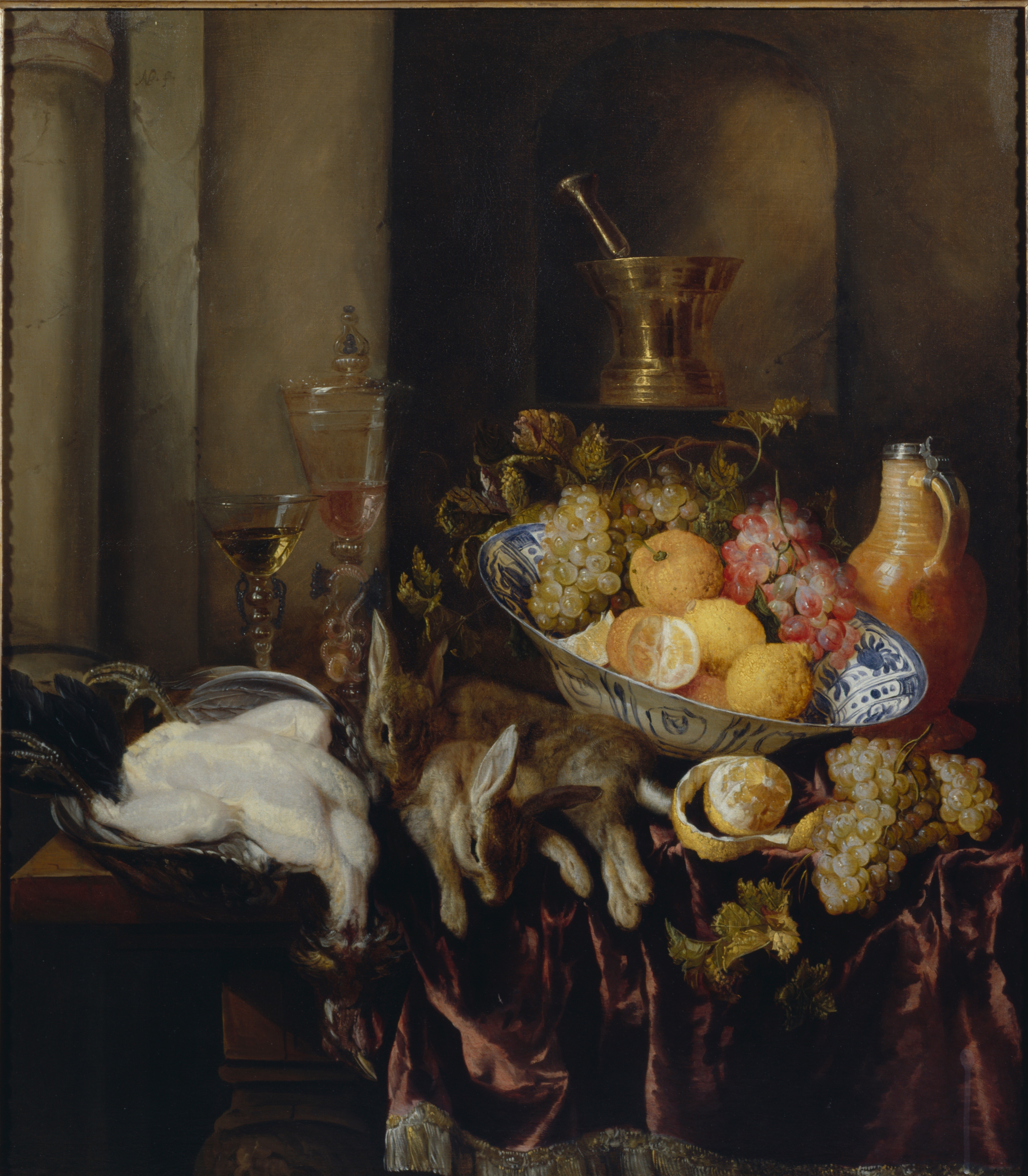 "Pronkstilleven" with self portrait of the artist in the mortar. Ger Eenens Collection the Netherlands permanent loan to Scottish National Gallery